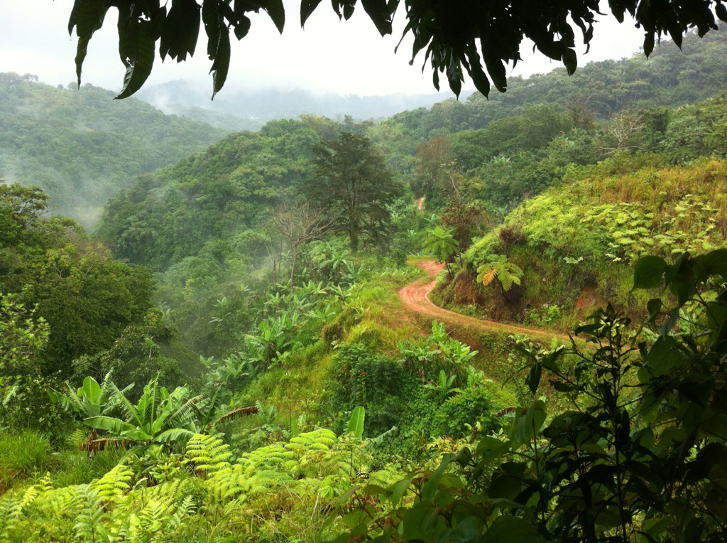 Unretouched image of the mountains of Jayuya